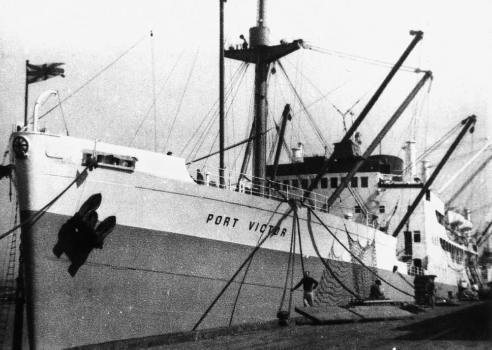 Port Line (Commonwealth and Dominion Line) 10,489 GRT refrigerated cargo ship MV Port Victor. John Brown & Co of Clydebank completed her in 1943 as the Nairana-class escort carrier HMS Nairana. She was transferred to the Royal Netherlands Navy in 1946 as HNLMS Karel Doorman, restored to Port Line in 1948 as Port Victor, and scrapped at Faslane in 1971.